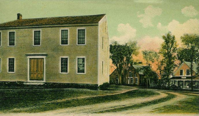 Boyhood home of Nathaniel Hawthorne, South Casco, Maine. Built about 1812, this house was home to the writer from 1812 to 1825.